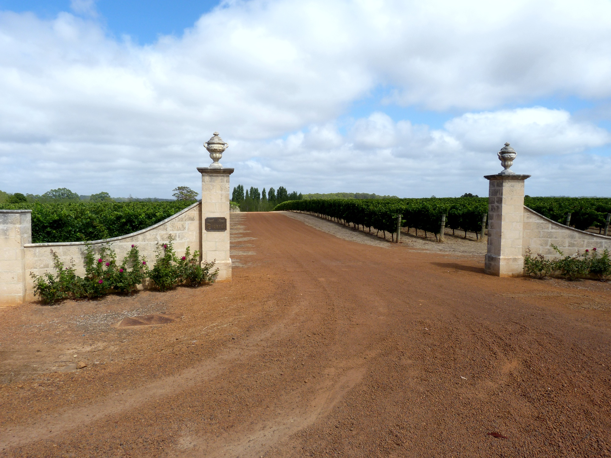 Entrance to Picardy Winary at Vasse Hwy near Pemberton, Western Australia